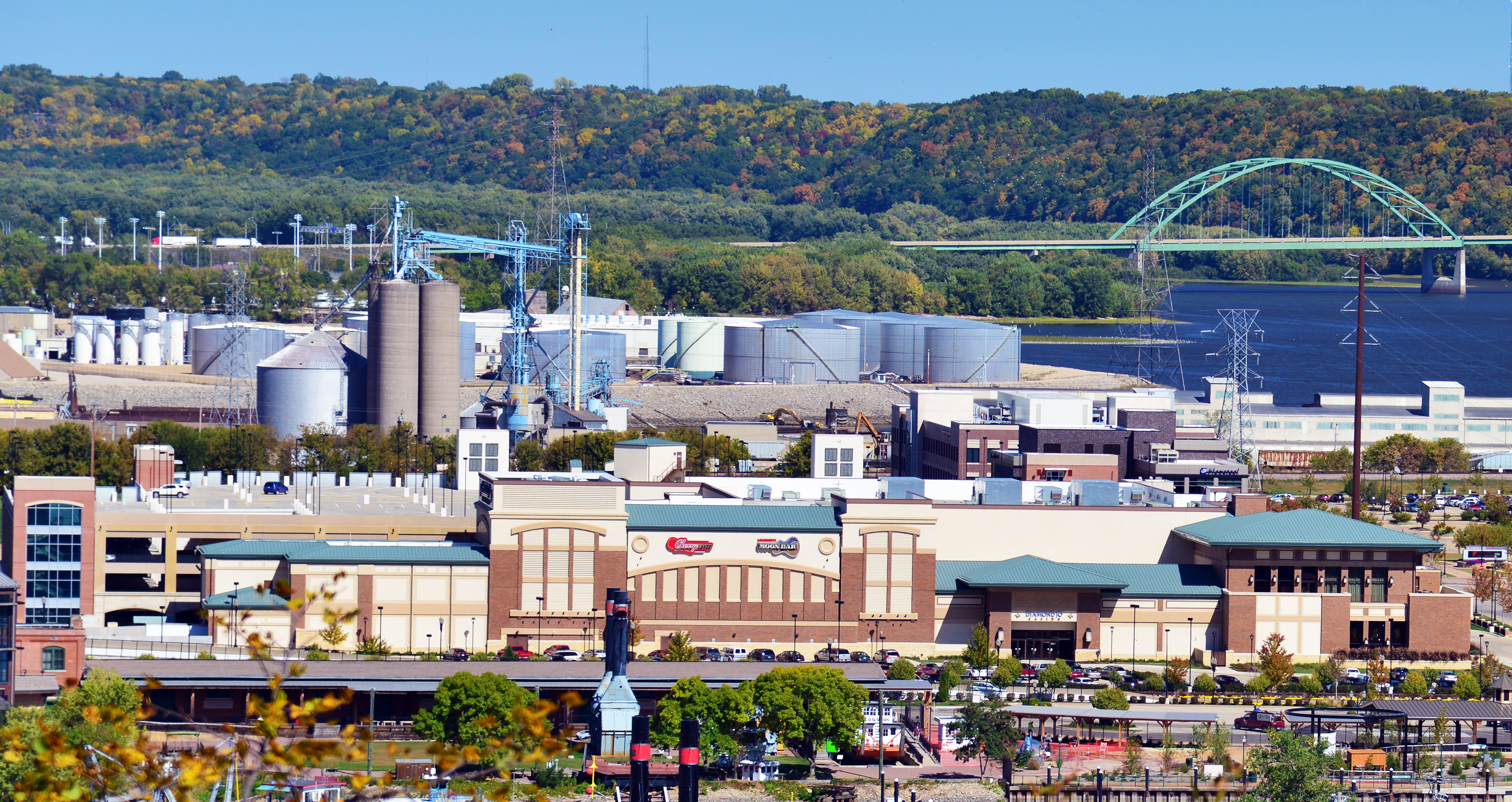 Diamond Jo Casino in Dubuque, Iowa in Sept 2012. Taken from Cleveland Park